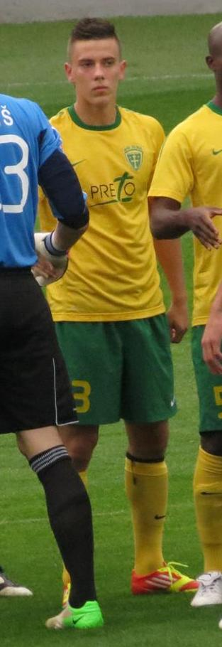 Photo - Slovak footballer Jaroslav Mihálik